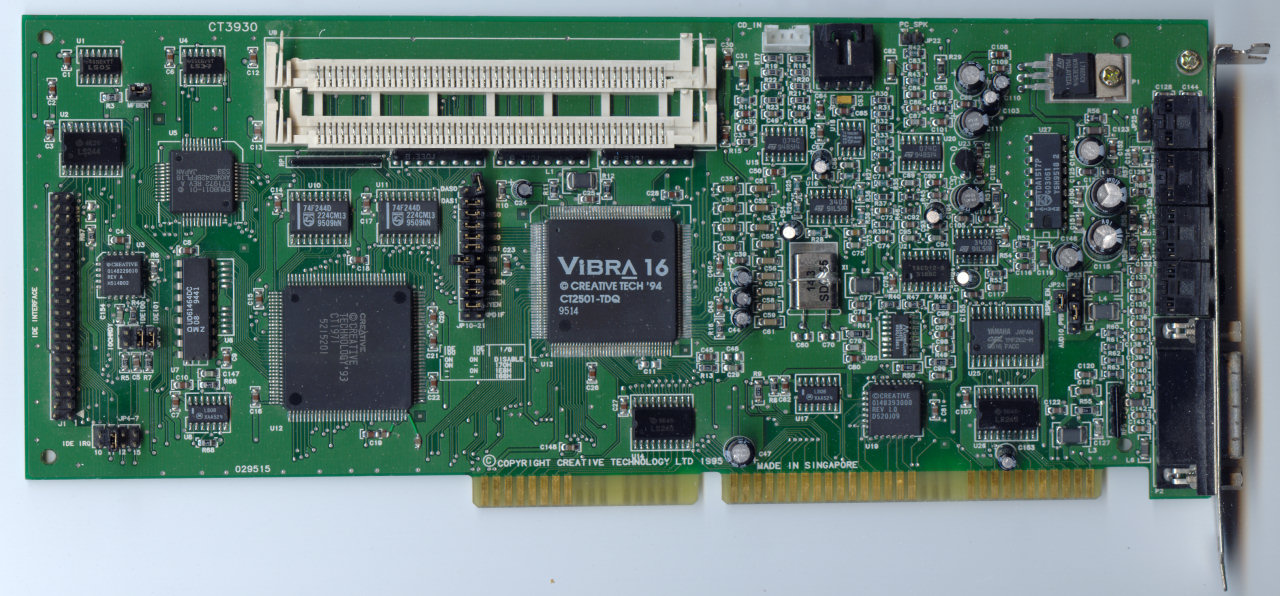 Creative Labs Sound Blaster 32. CT3930. Scan of card.